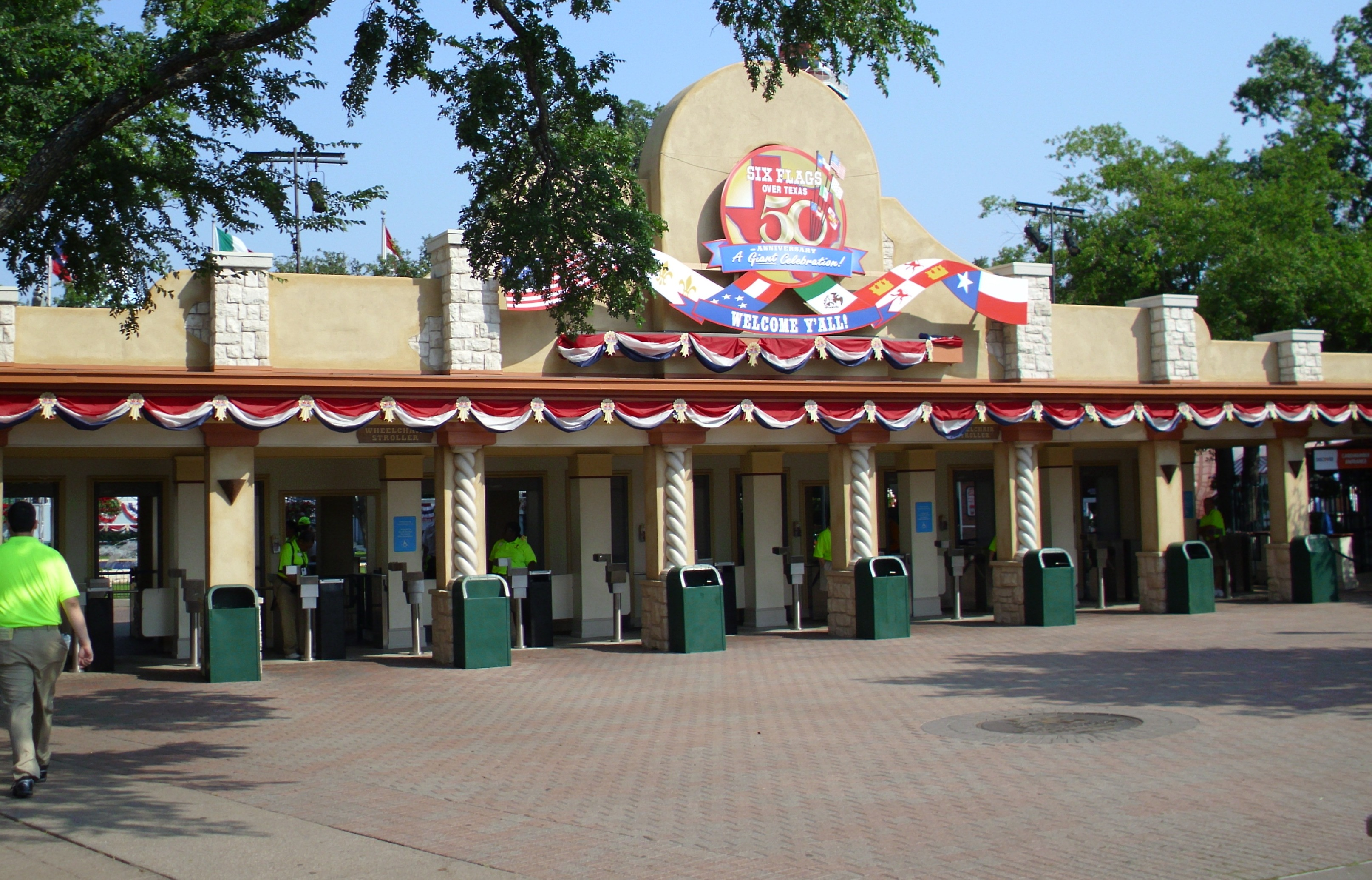 The main park entrance to Six Flags Over Texas. It shows their 50th Anniversary sign.